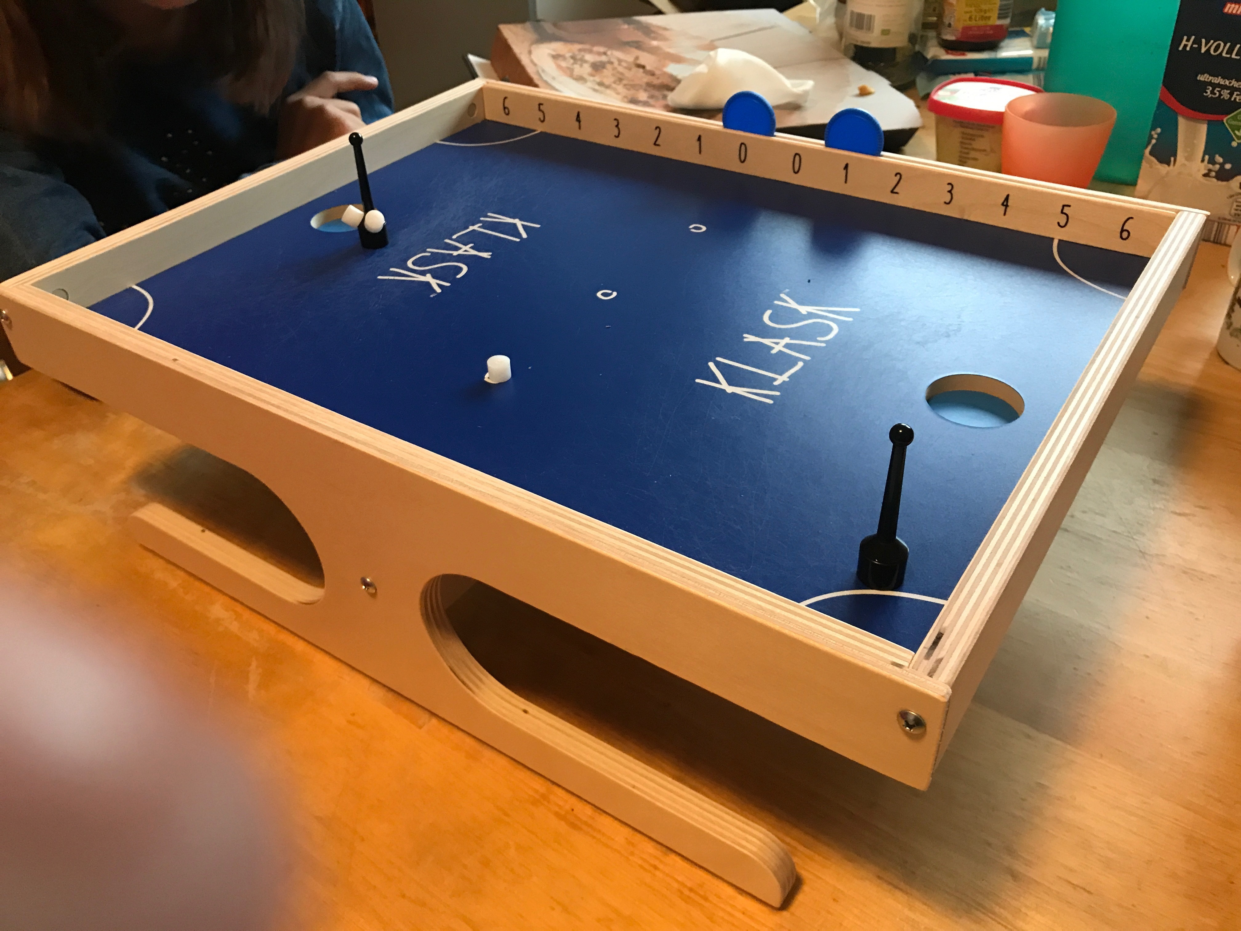 KLASK - danish physical-skill game (Game Factory)